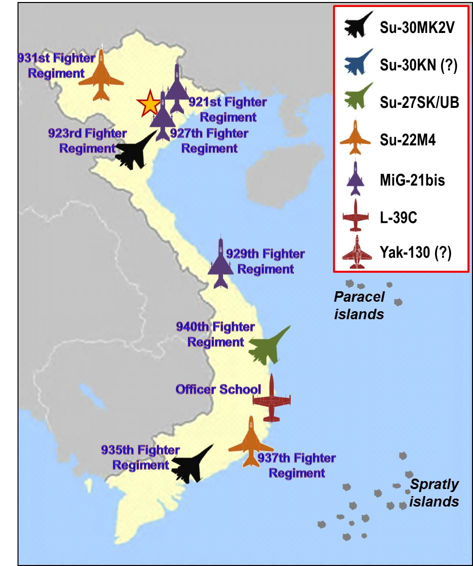 Vietnam People's Air Force Regiments